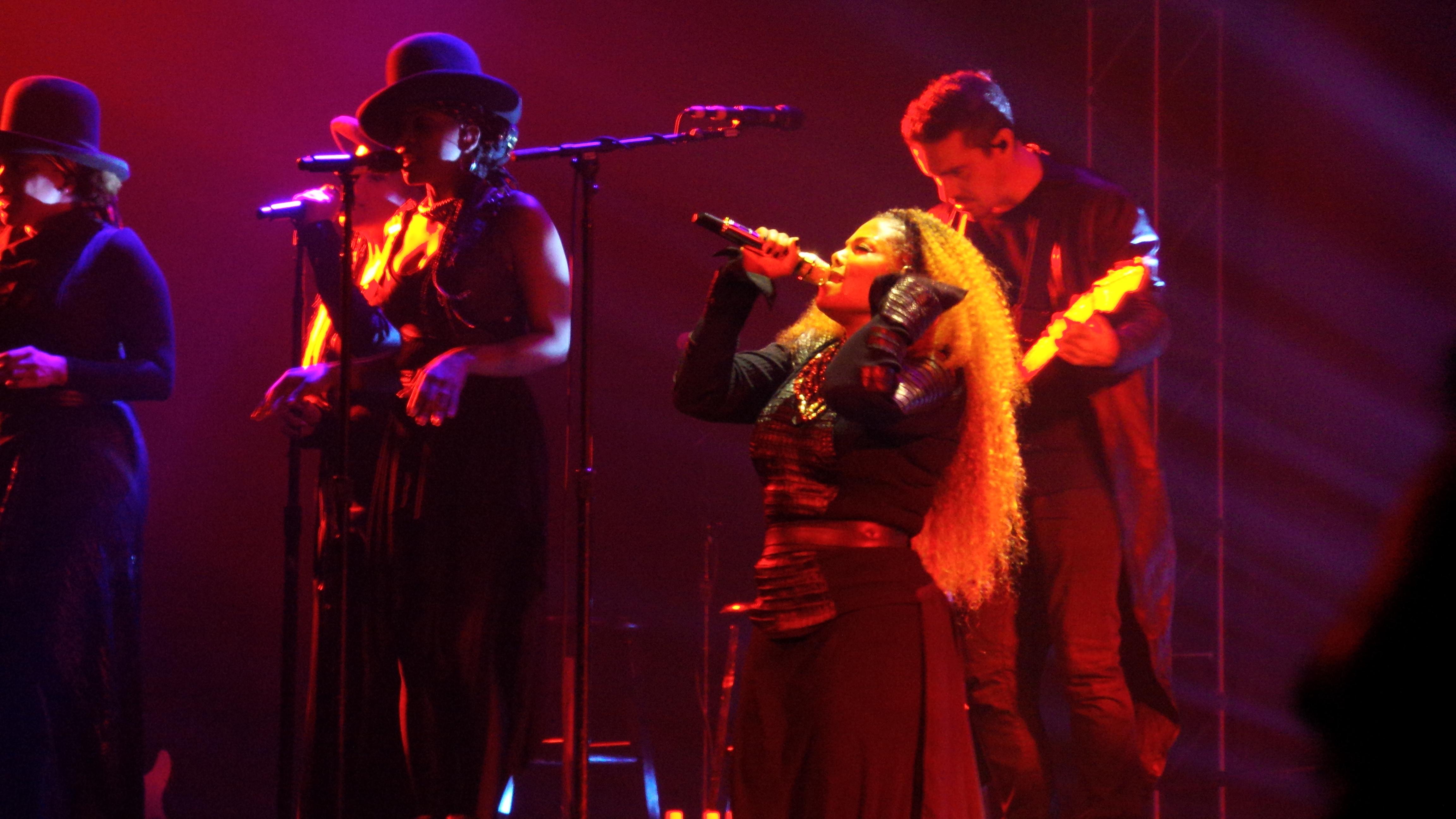 Janet Jackson Unbreakable Tour, Honolulu, Hawaii 2015